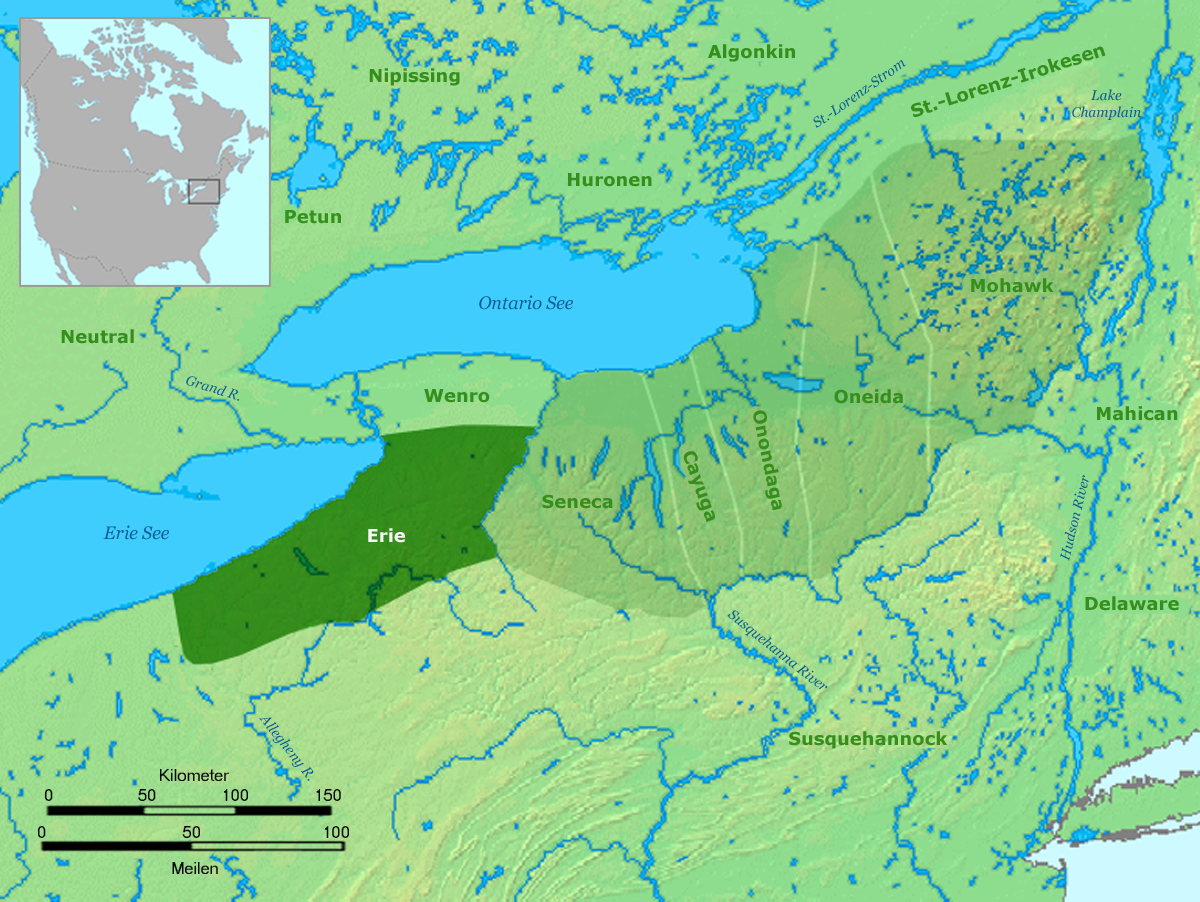 Tribal territory of Erie about 1630